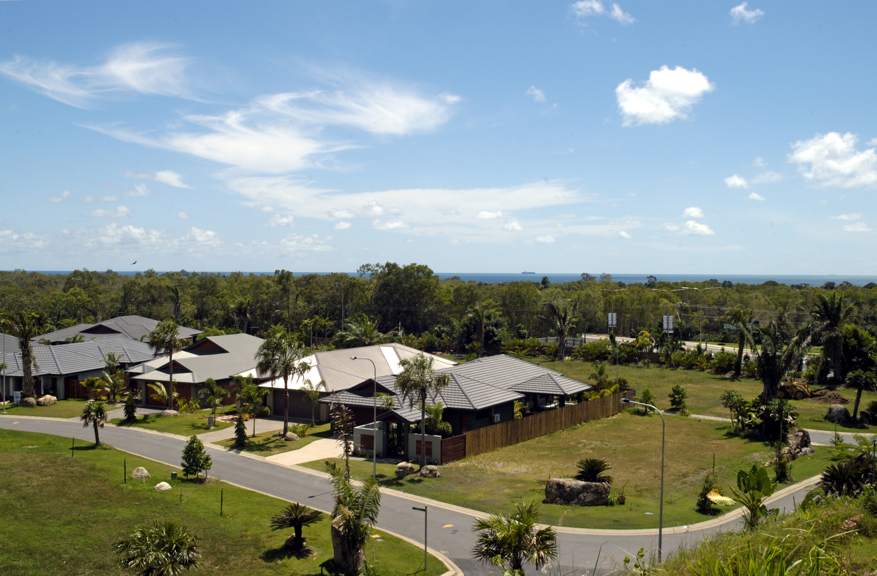 CSIRO has come up with four scenarios that explore how changes in the Great Barrier Reef region, such as climate change and globalisation, will shape the region in 2050. The catchment adjacent to the Great Barrier Reef (GBR) lagoon is a region of economic significance and exceptional environmental value. It extends about 2 300 kilometres along the coast of Queensland, from the Tropic of Capricorn to the tip of Cape York. Careful planning of future land-use and landscape management options is important for:maintaining productivityimproving water qualitysustaining healthy ecosystems and communitiesprotecting the reef.